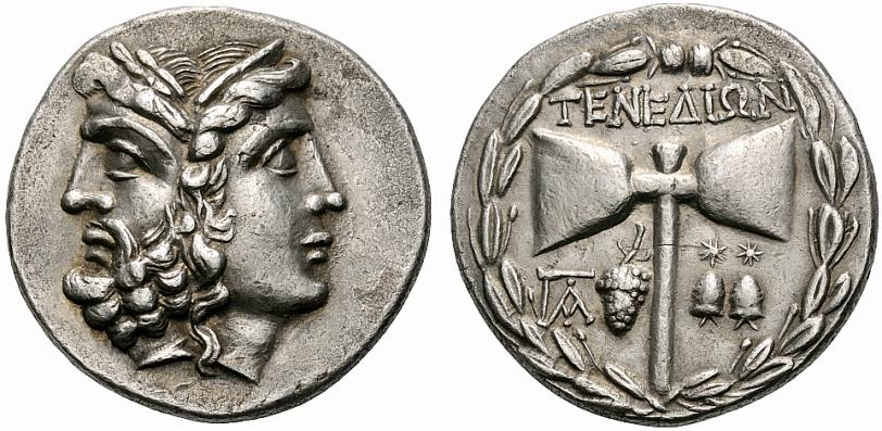 Mysia Islands off Troas, Tenedos. Circa 100-70 BC. Tetradrachm (Silver, 16.27 g 12). Janiform head composed of a laureate and bearded head of Zeus to left and a diademed head of Hera to right. Rev. TENEDIWN Double axe; below left, monogram of PA and bunch of grapes; below right, caps of the Dioscouri; all within laurel wreath. Callataÿ, Tenedos 80 (same dies = Pozzi 2289). Very rare. A splendid coin of excellent style, struck in high relief. Minor traces of overstriking, otherwise, extremely fine. From the Z collection, Switzerland. The early coinage of Tenedos bore janiform heads similar to the one here, but on those the male head was bare and without a laurel wreath. Those heads portrayed two characters from a local foundation legend: Tenes and, probably, his young step-mother and lover, Philonome. However, even in ancient times the combination of the janiform, male/female head and the double axe on the reverse gave rise to tales of the punishment for adultery (!), and by the end of the 5th century the head on the coins of Tenedos was transformed into one of Zeus and Hera. After a long break when the only silver coins struck were posthumous Lysimachus tetradrachms, Tenedos resumed minting silver during the 1st century BC with a series of tetradrachms and drachms, like the present example. These coins are uniformly very rare. NOMOS3, 113